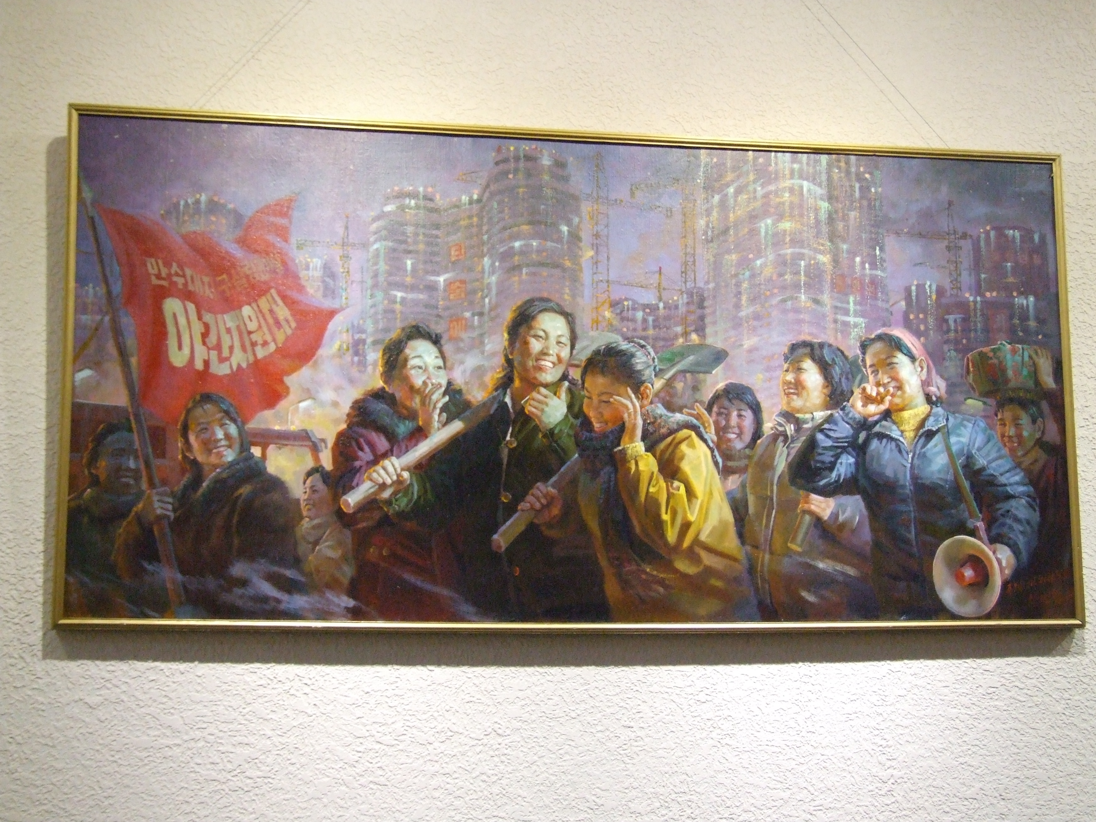 Picture of working women in North Korea